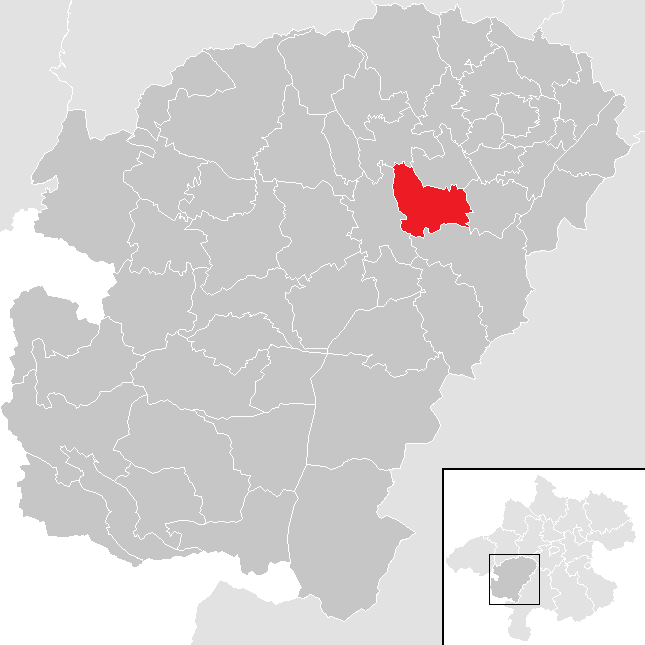 District Vöcklabruck